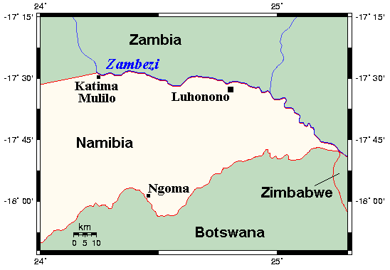 Map showing Schuckmannsburg's location in the Caprivi Strip.